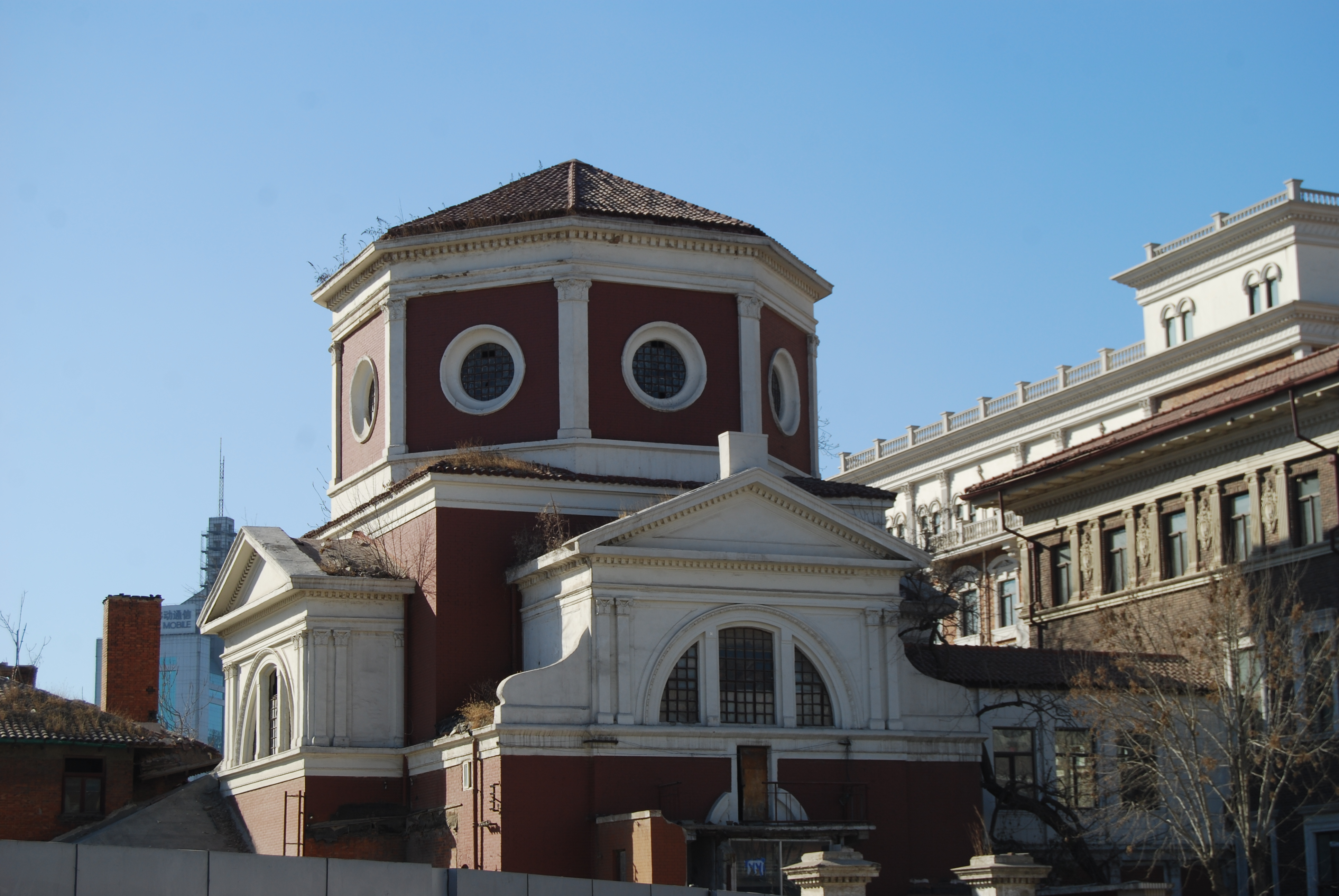 Franciscan Sacred Heart Church in Jianguo Dao No. 73, Hebei District, Tianjin